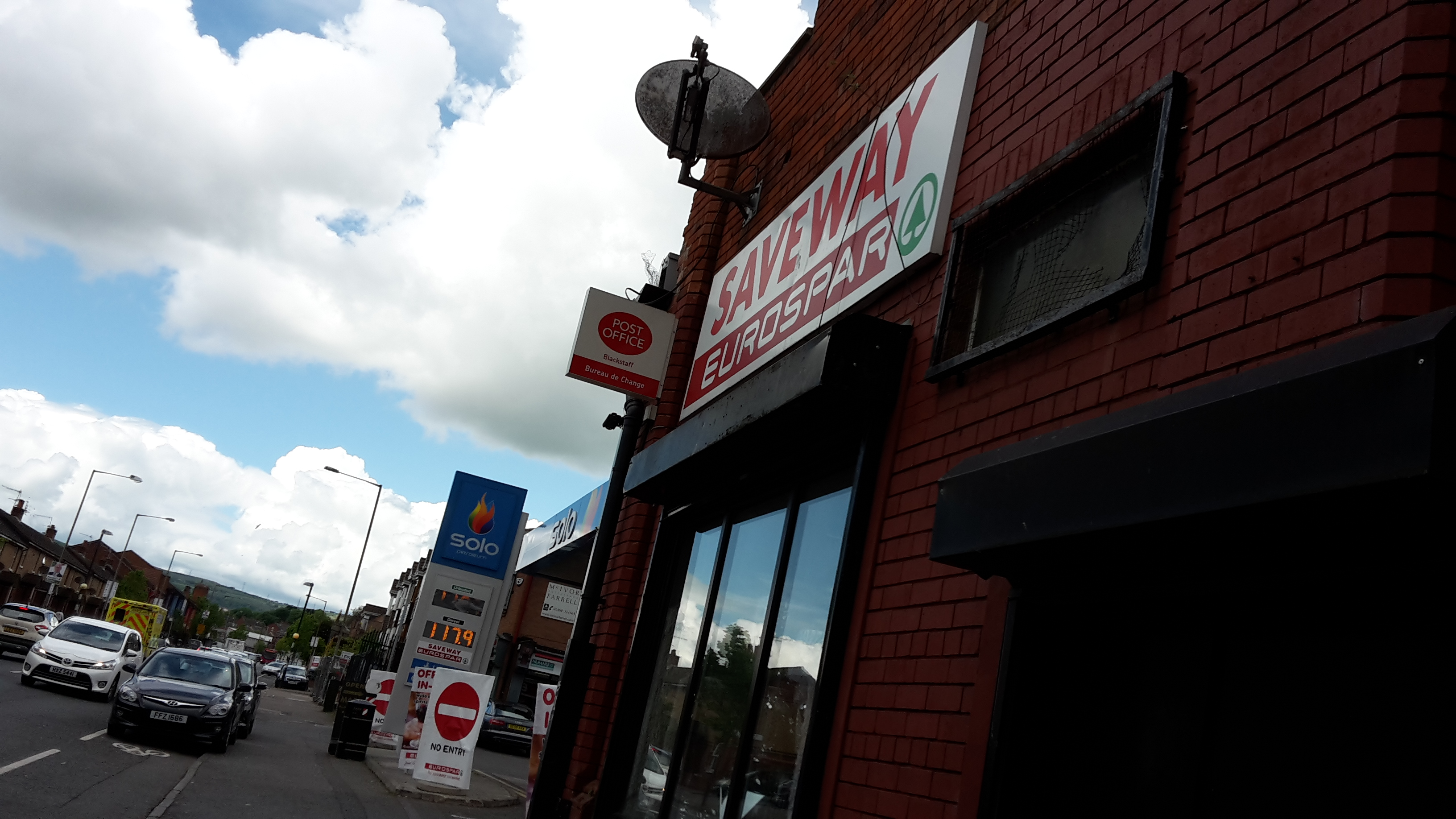 EUROSPAR store in Belfast, Northern Ireland, Great Britain